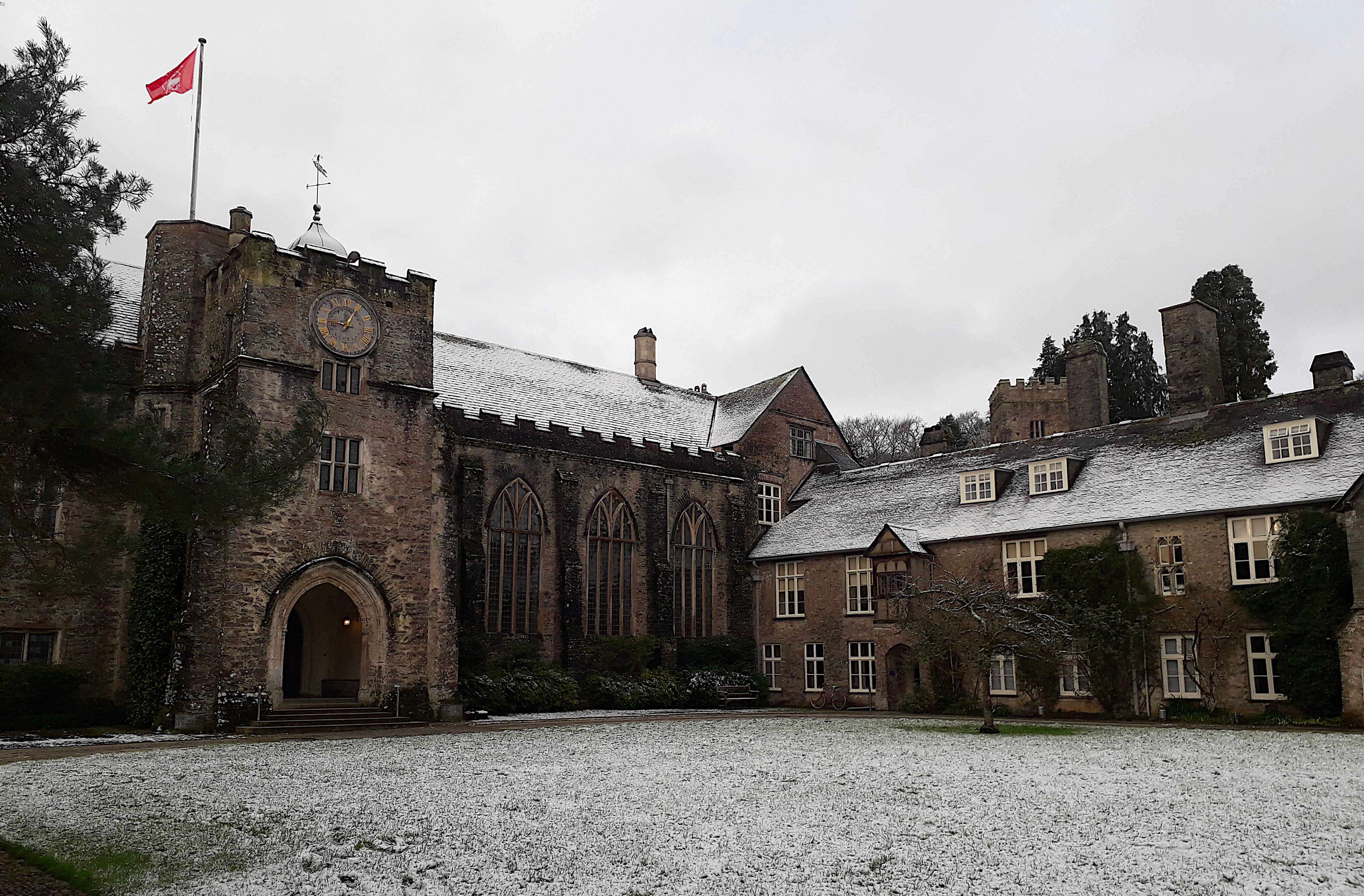 A view of the Great Hall and some of the courtyard buildings.